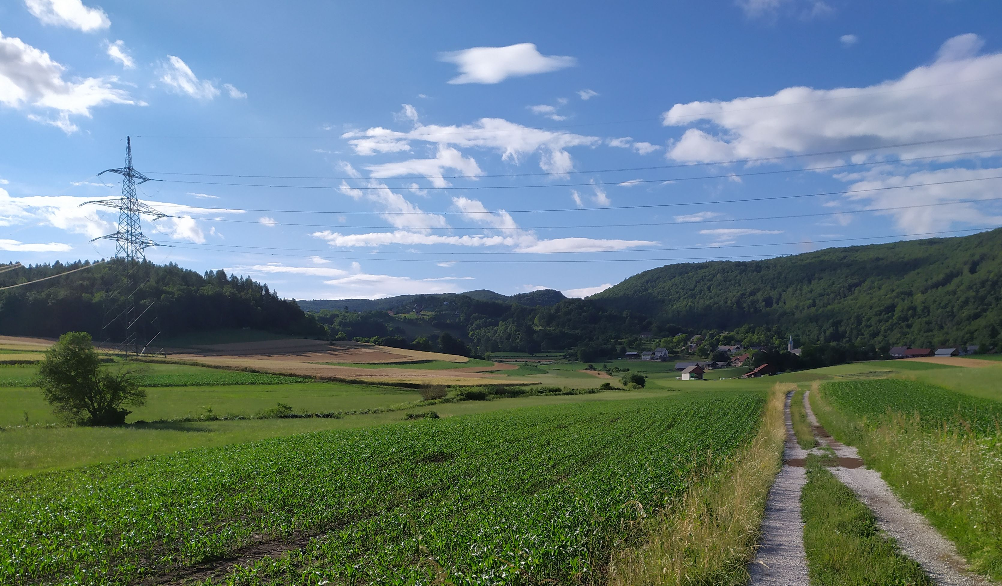 Tihaboj, a settlement in the Municipality of Litija (central Slovenia). View from the southeast.